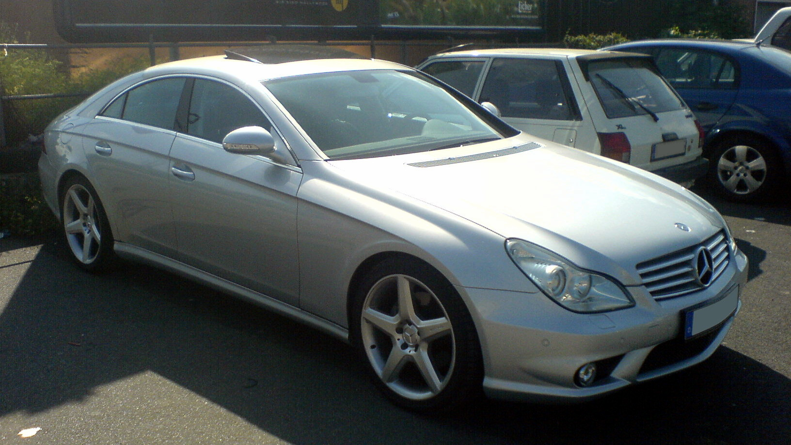 Mercedes CLS with AMG-Package (no CLS 55 AMG or CLS 63 AMG!)